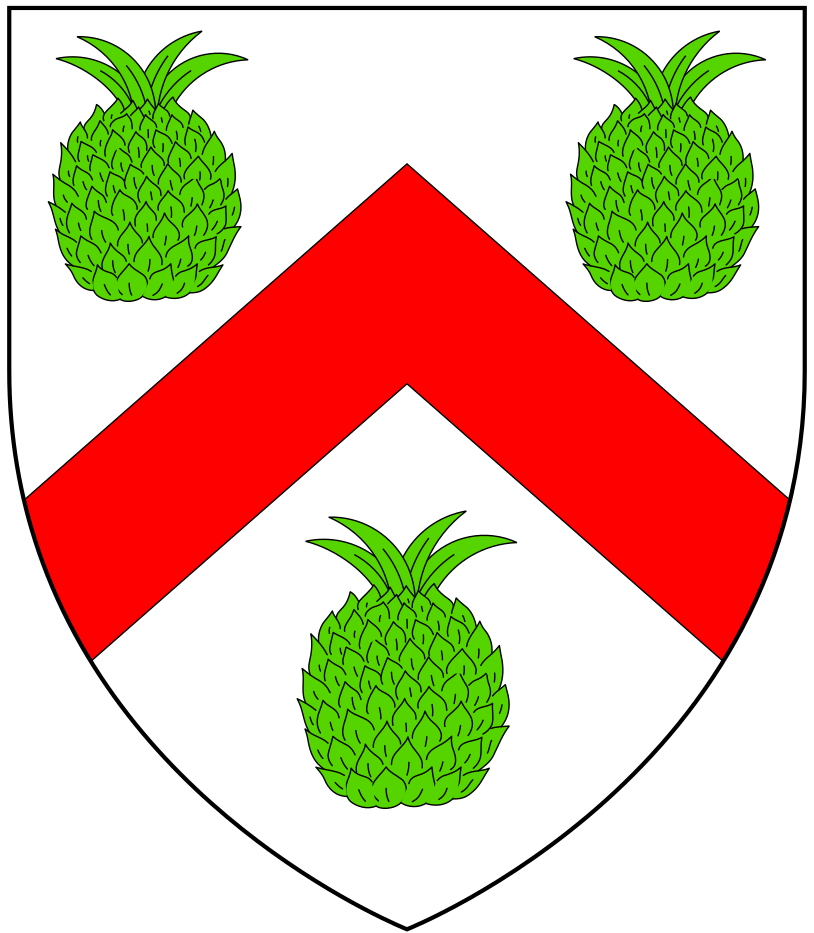 Arms of Piperell of Painsford in the parish of Ashprington, Devon: Argent, a chevron gules between three pineapples vert (Pole, Sir William (d.1635), Collections Towards a Description of the County of Devon, Sir John-William de la Pole (ed.), London, 1791, p.496)